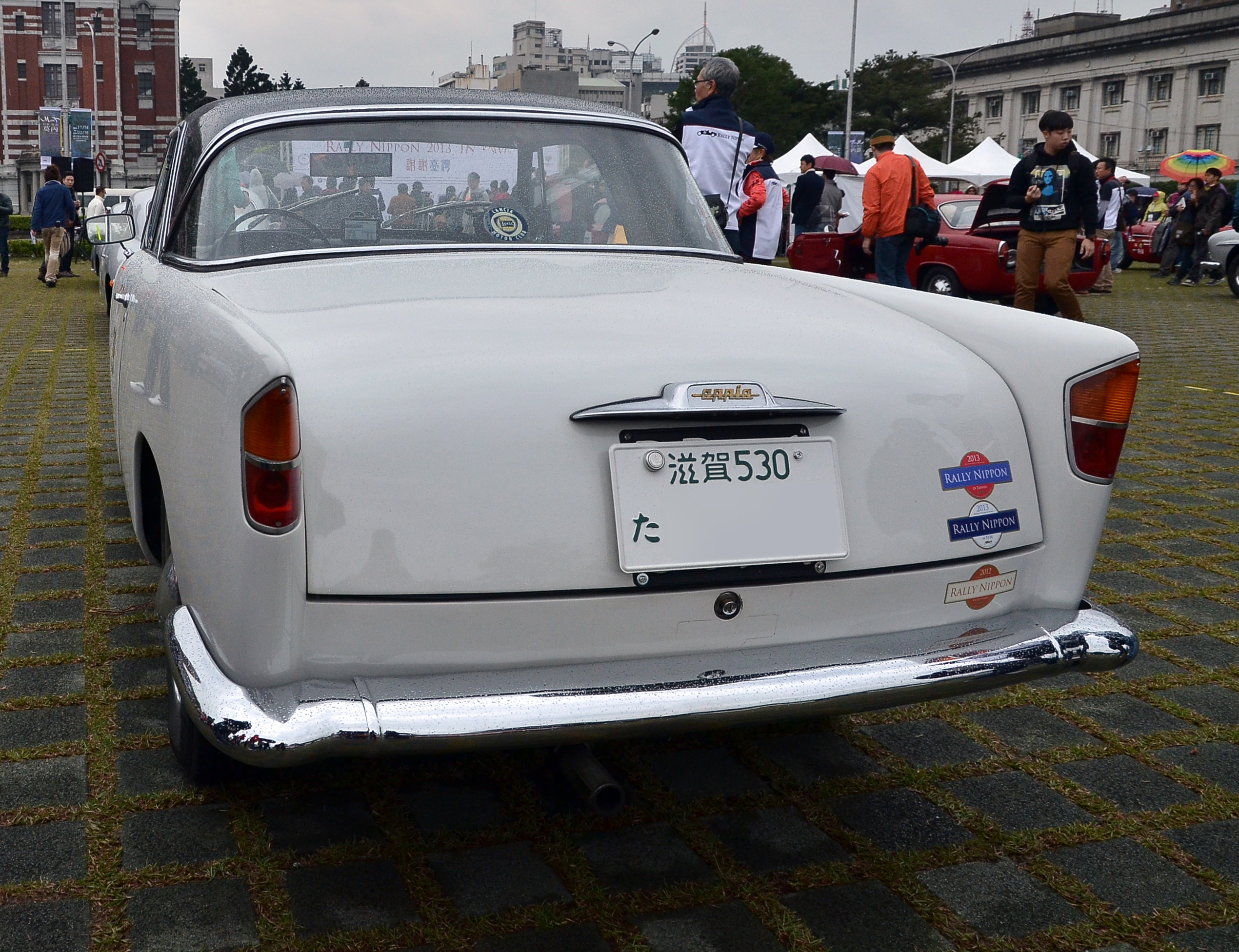 Rear view of a 1958 Lancia Appia Series 2 Pininfarina Coupé